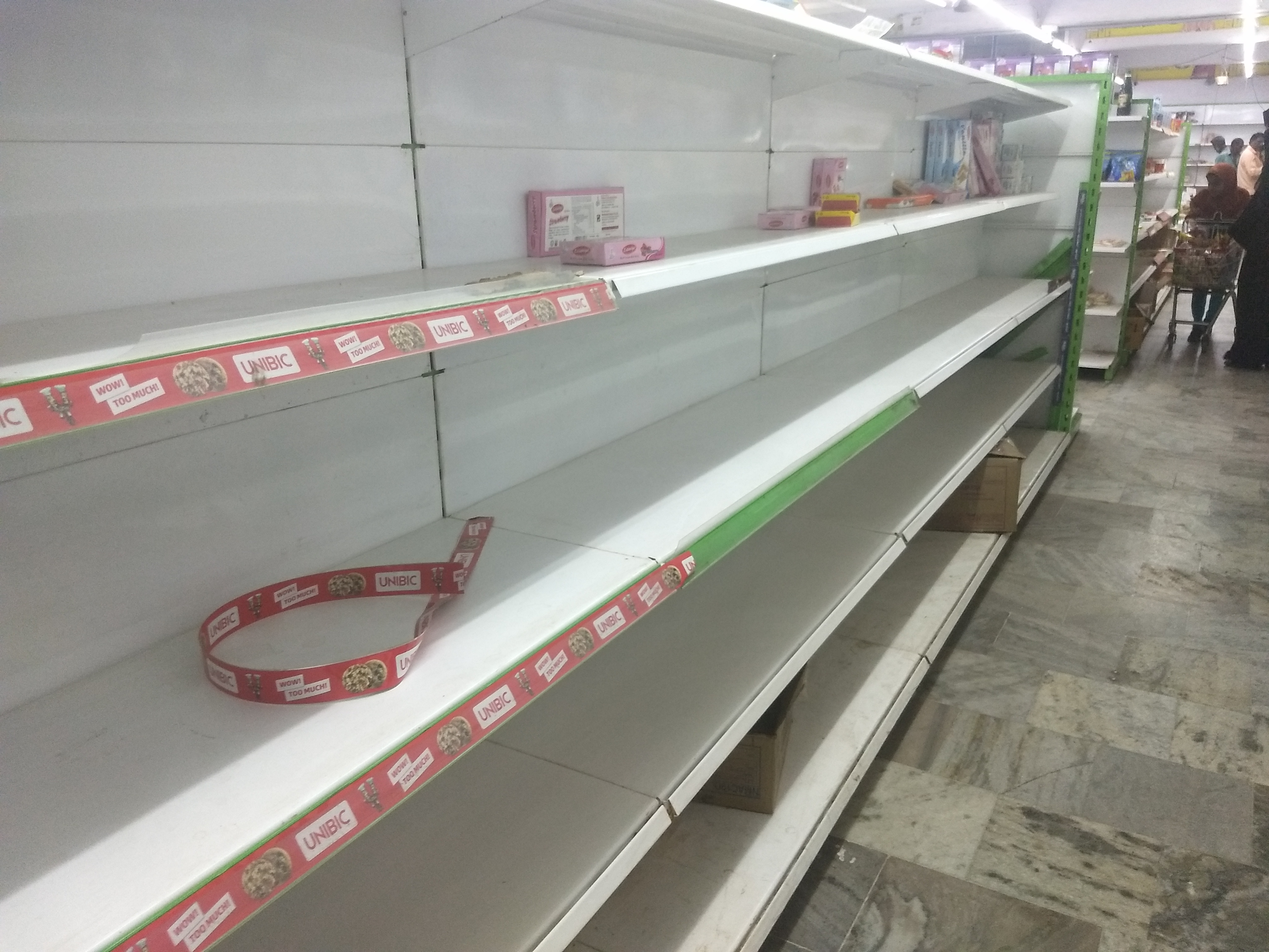 Panic buying - (Almost empty departmental store in Tirupur), Tamil Nadu ahead of Corona virus lockdown